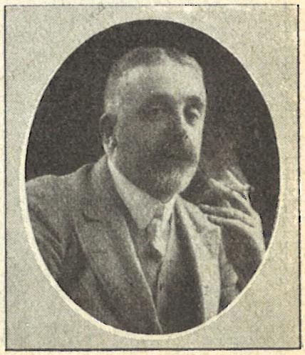 Hugo Vallentin (1860-1921), Swedish journalist; editor of Puck.